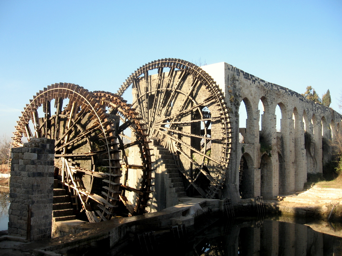 Hama: water wheels outside the city called Noria. For more info chek Wikipedia . You can also listen to the sound of a Noria